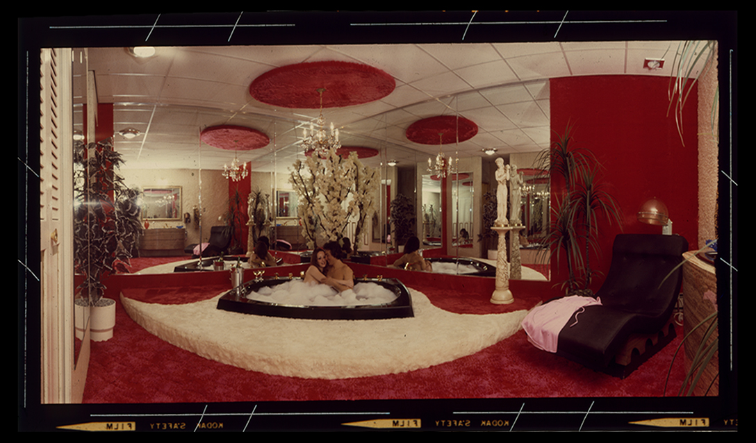 A couple relaxes in a bubble bath at Penn Hills Resort. The room features shag carpeting and floor-to-ceiling mirrors. (The resort closed in 2009).